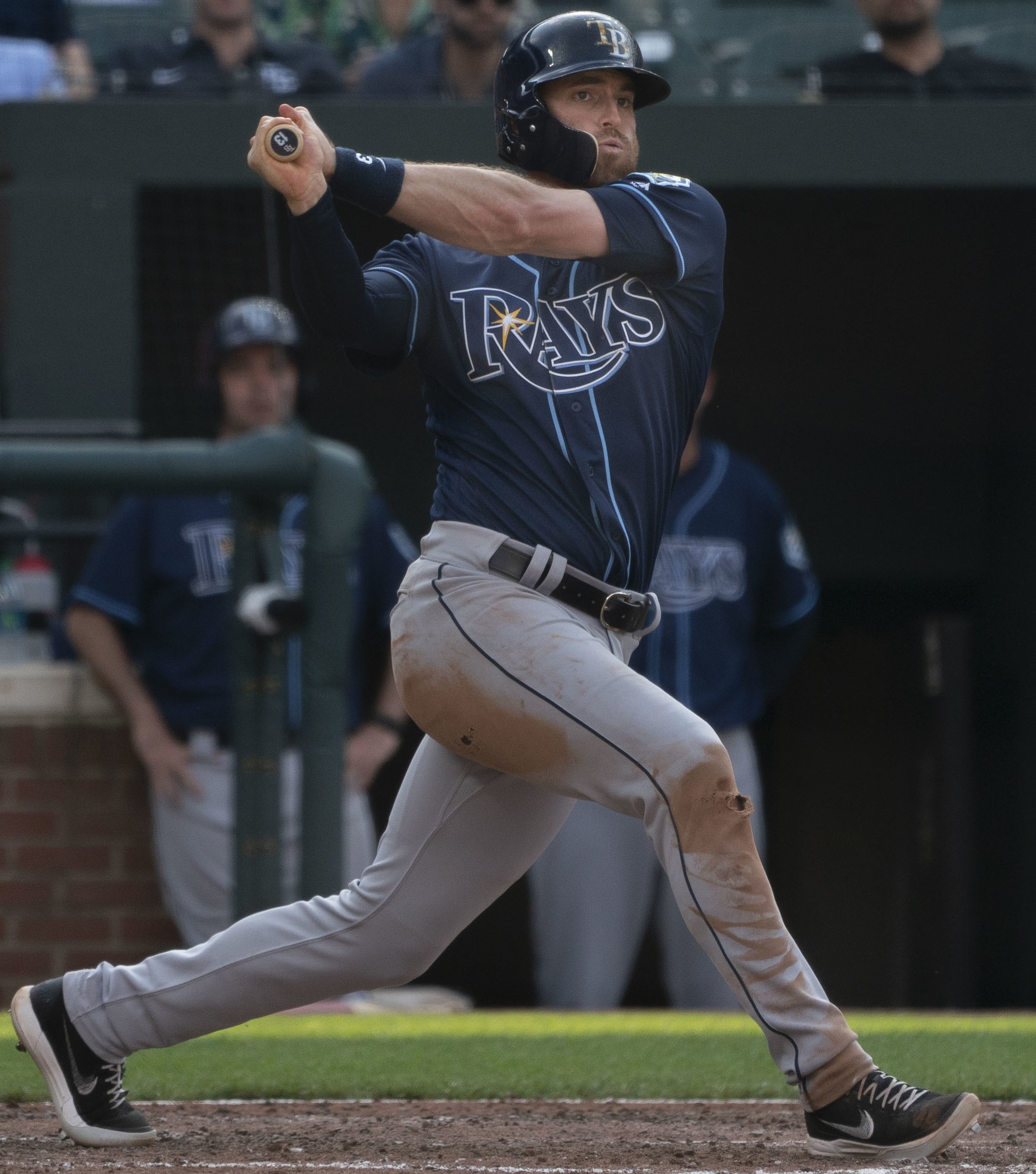 Rays at Orioles 5/12/18